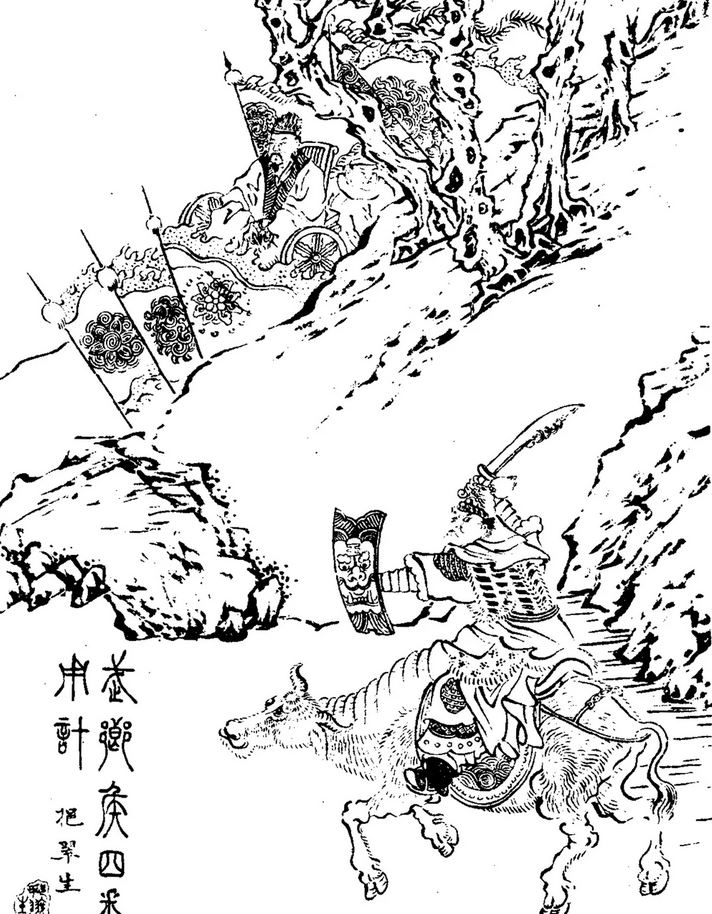 Meng Huo's red ox